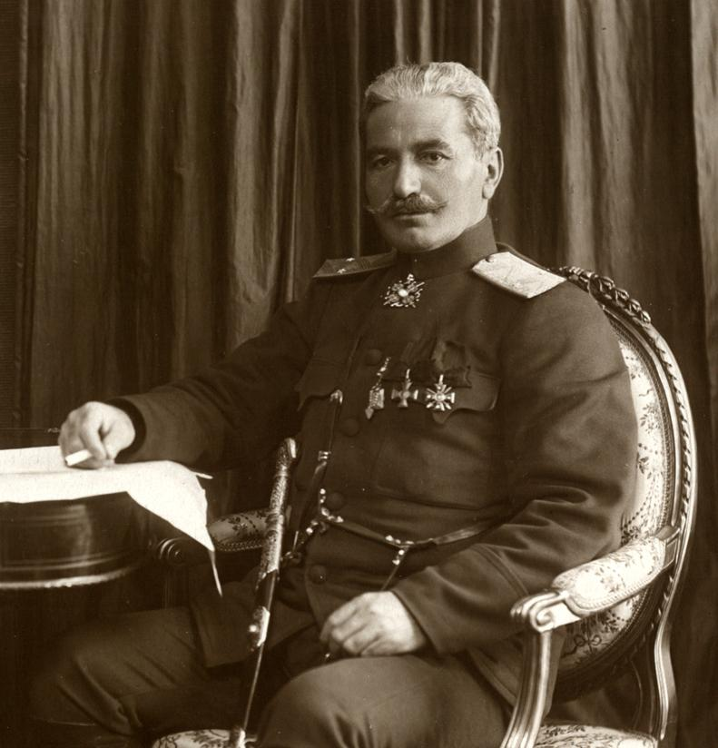 General Andranik Toros Ozanian